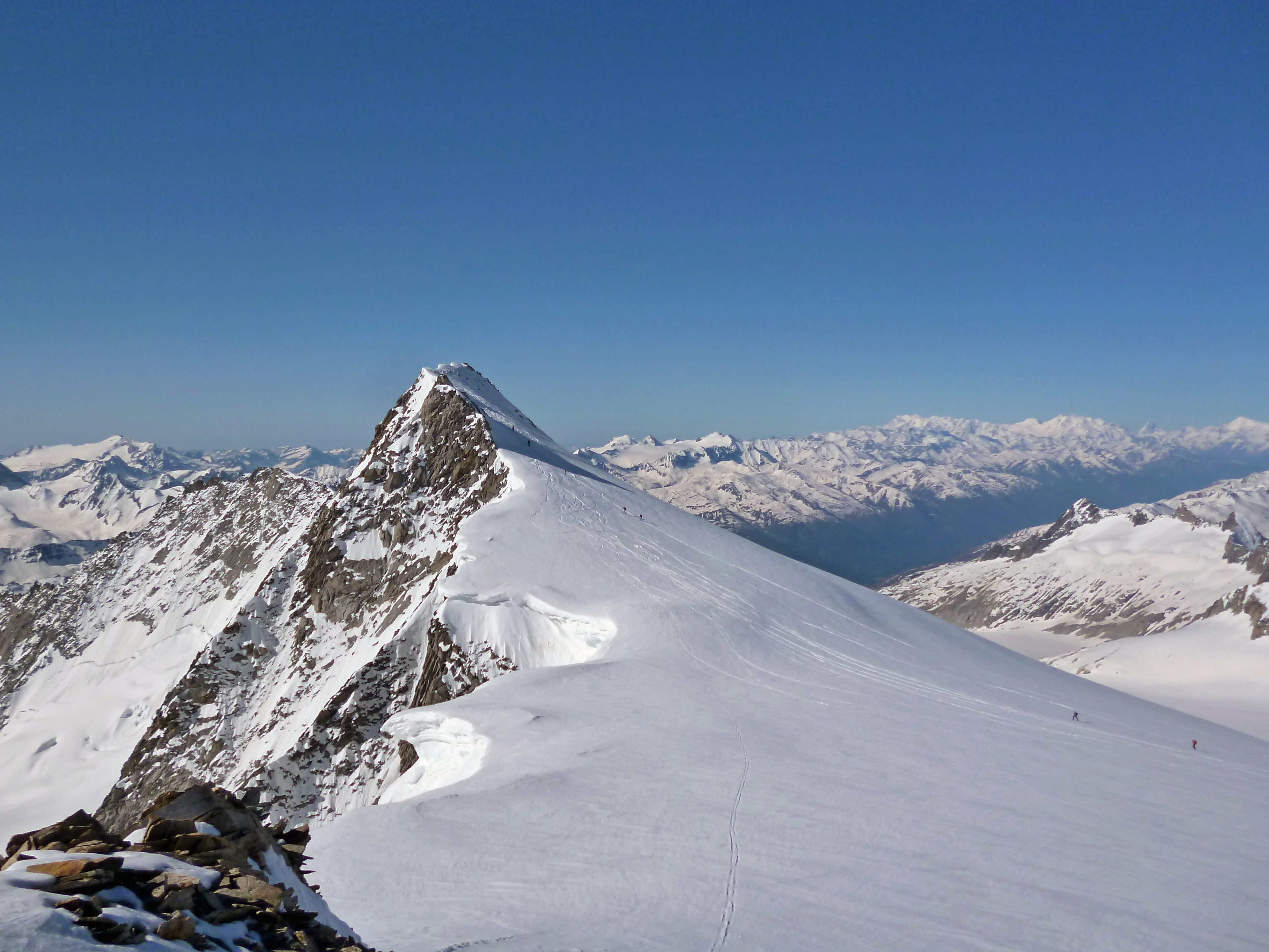 Dammastock from north, from Schneestock